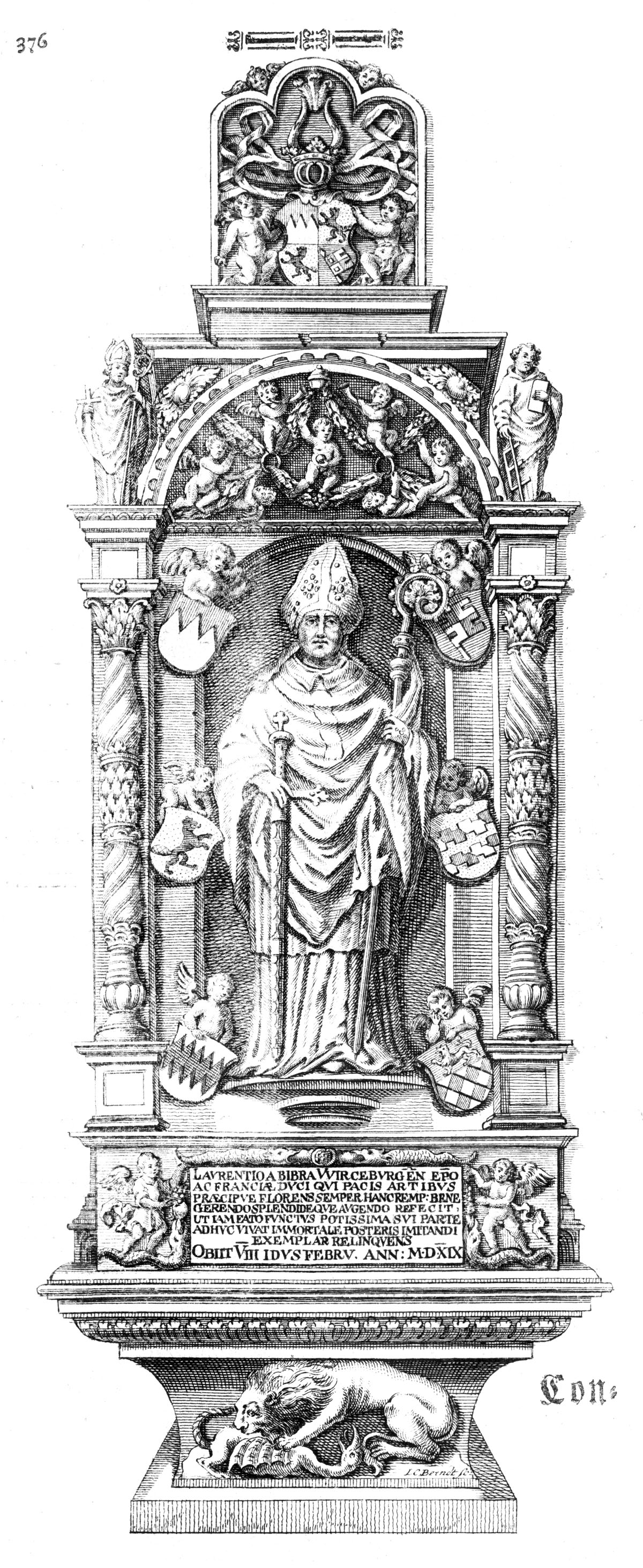 Proben des hohen Teütschen Reichs Adels oder Sammlungen alter Denkmäler, Grabsteine, Wappen, Inn-und Urschriften, u. d. Nach ihren wahren Urbilde aufgenommen, unter offener Treüe bewähret, und durch Ahnenbäume auch sonstige Nachricten erkläret und erläutert (Würzburg, 1775)